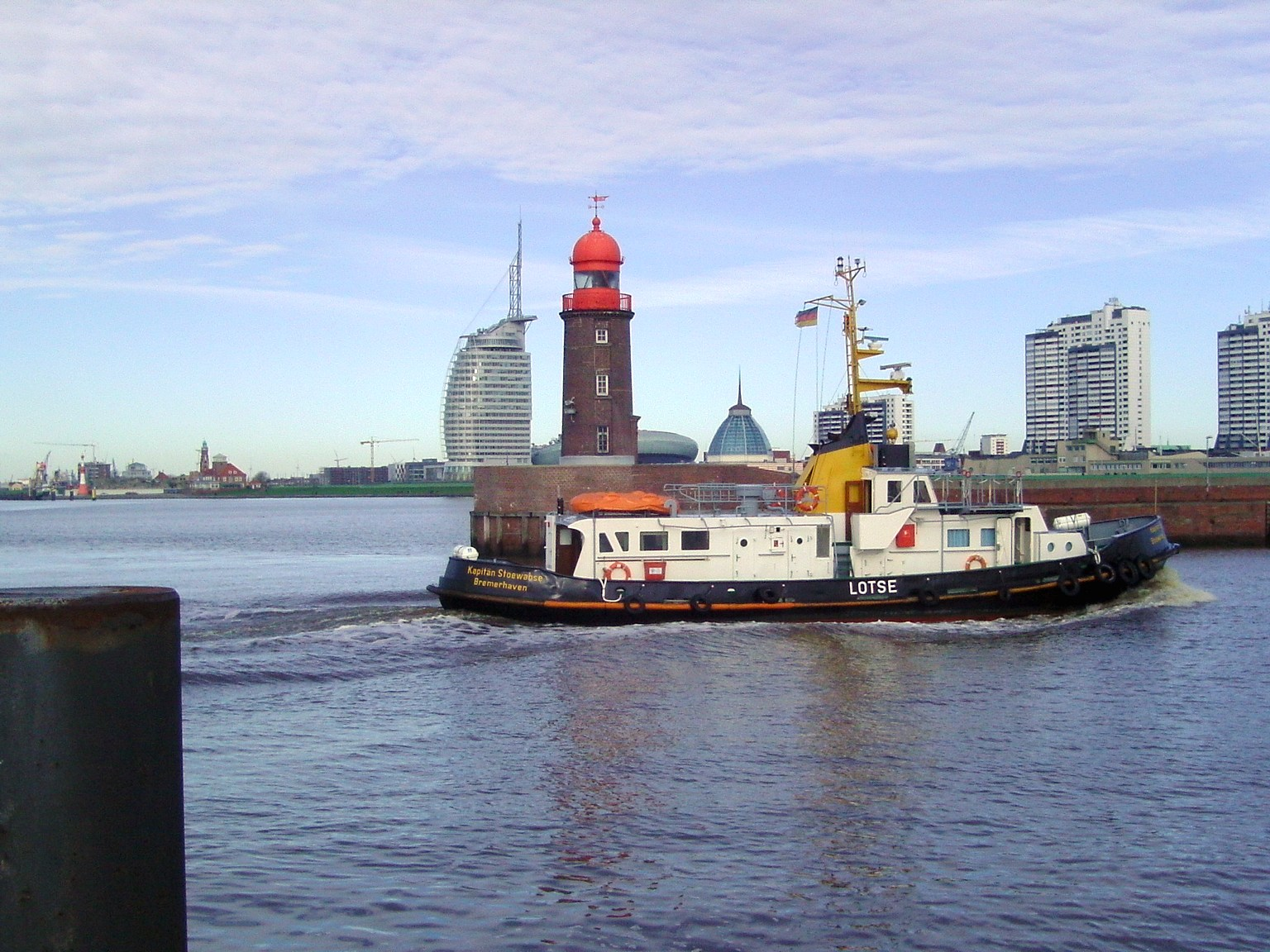 The pilot boat Kapitän Stoewahse driving from the River Weser to the River Geeste in Bremerhaven, Germany